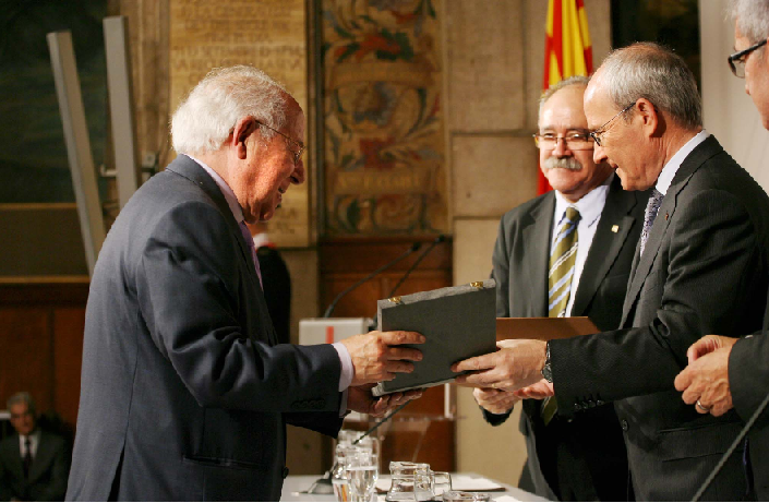 Jaume Canyameres rep la Creu de Sant Jordi de la Generalitat de Catalunya